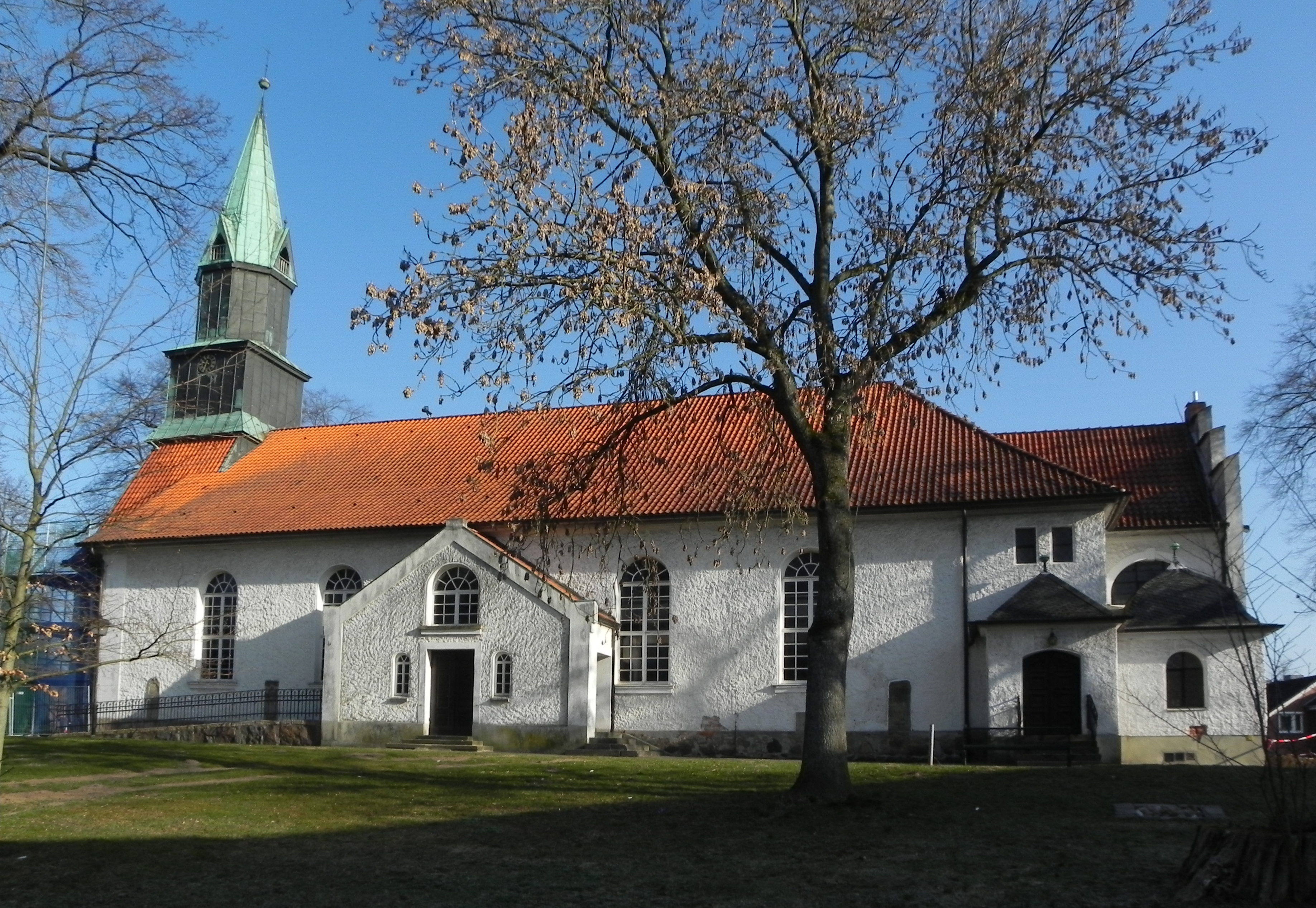 Church of St. Lambertus, Bergen. Lower Saxony.